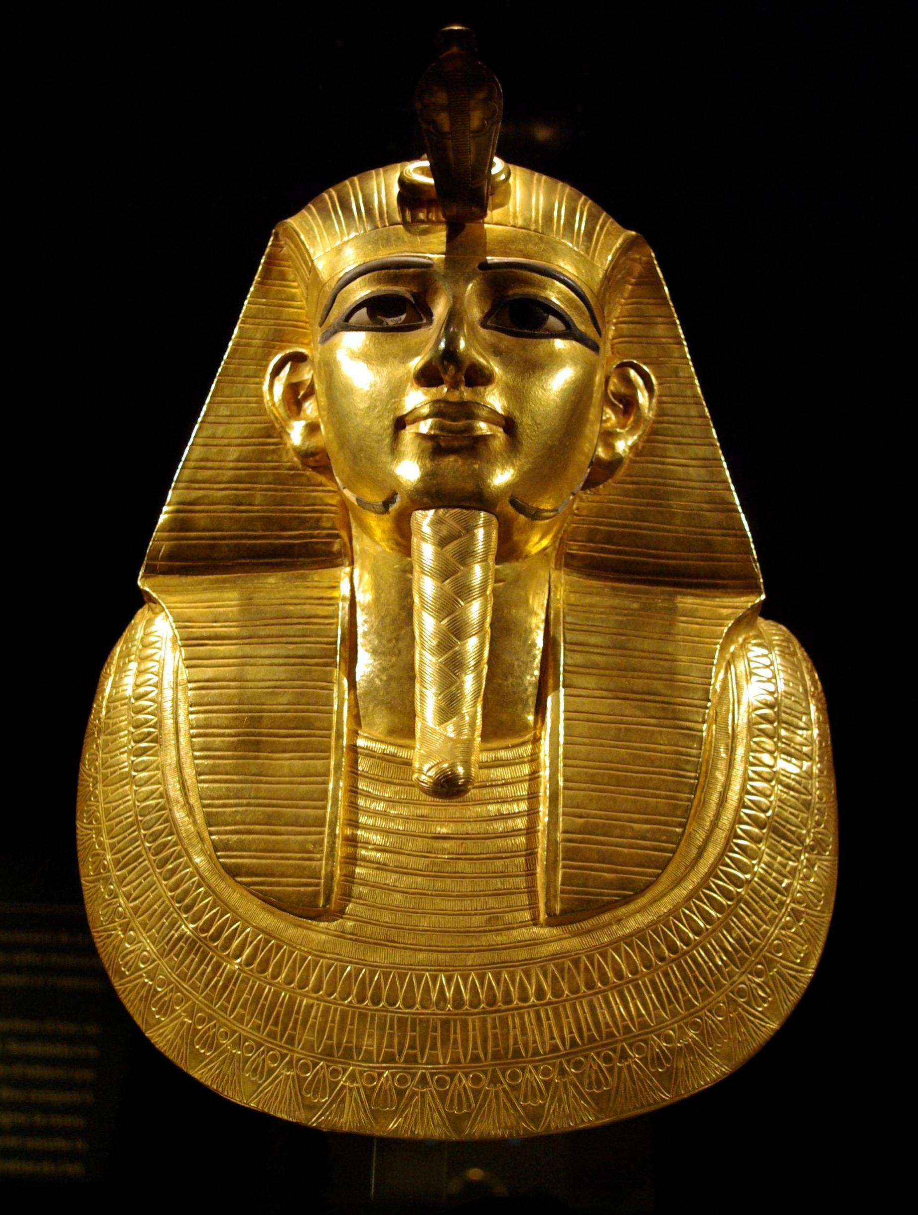 The funerary mask of pharaoh Psusennes I on display at the "Pharaon, Homme, Roi, Dieu" exhibition in the Museum of Fine Arts of Valenciennes, France. (November 2007)